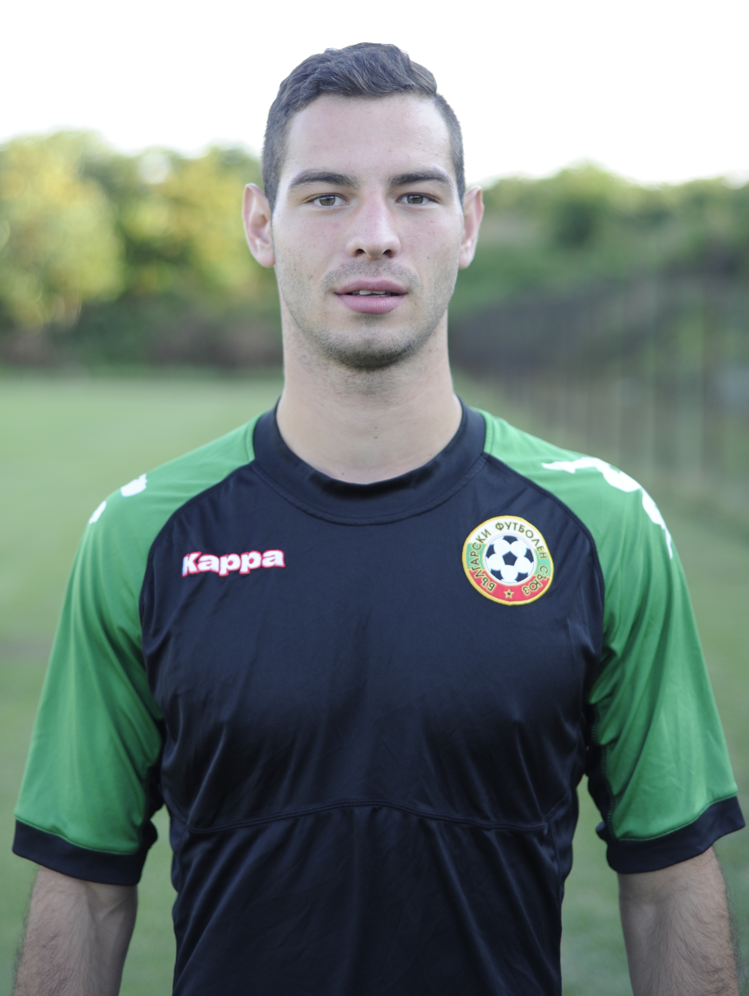 Simeon Slavchev, Bulgarian footballer plays, Litex Lovech